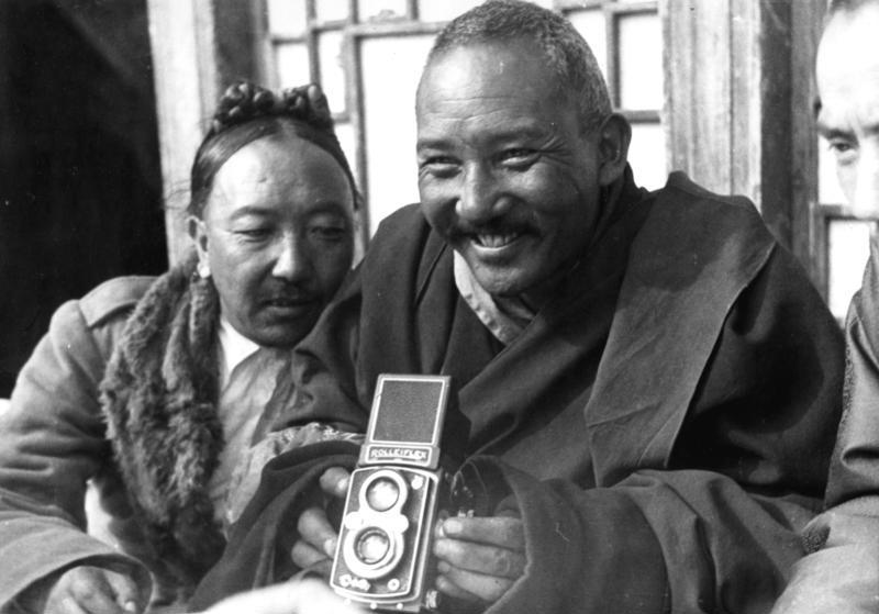 Lhasa, die Expedition wird von Regierungsmitgliedern besucht Information added by Wikimedia users.